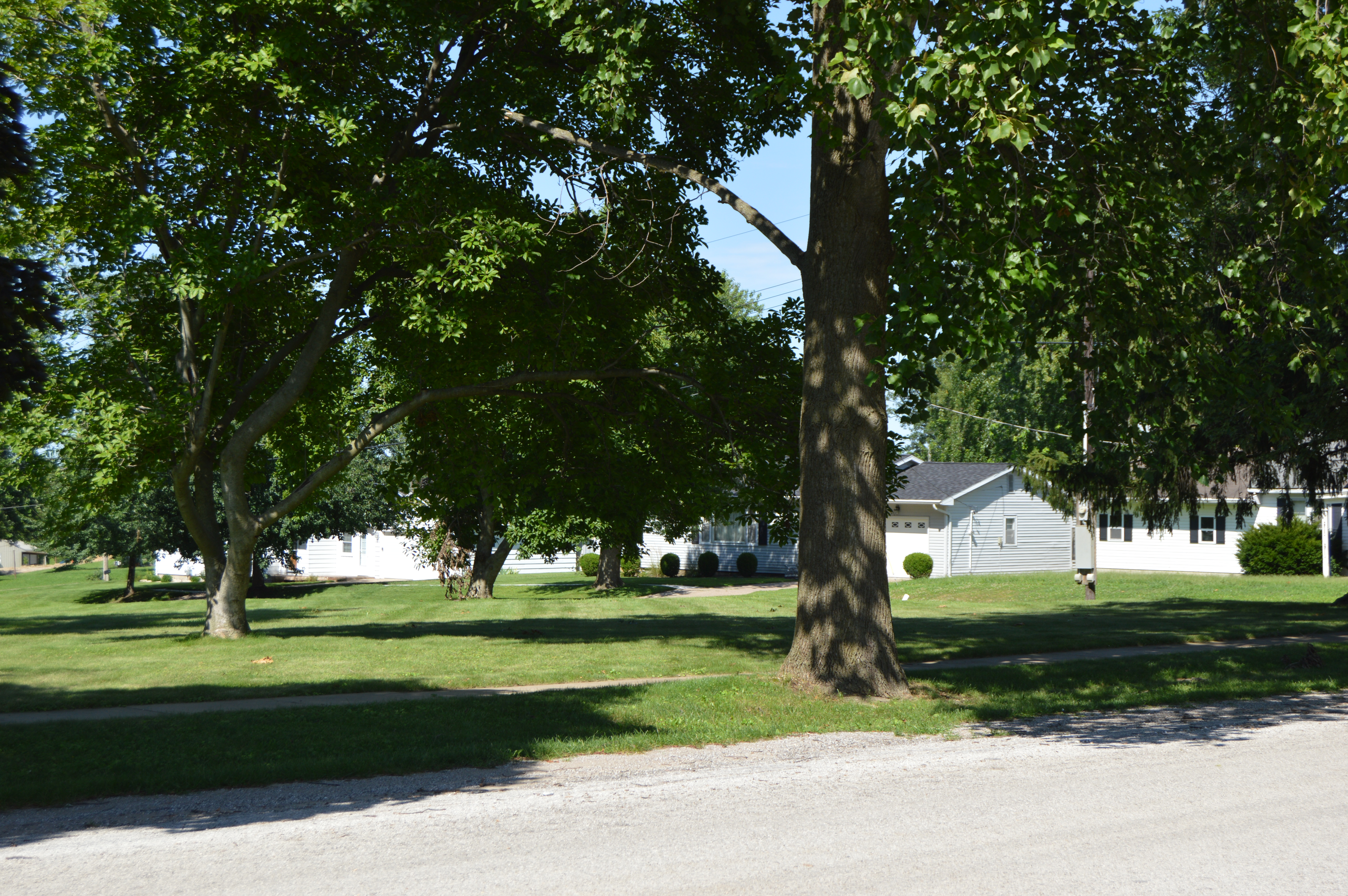 Site of the John McKoon House, which was formerly located at 500 Monroe Street in La Grange, Missouri, United States. Built in 1857, it was listed on the National Register of Historic Places in 1999; although since destroyed, it has not yet been removed from the Register.